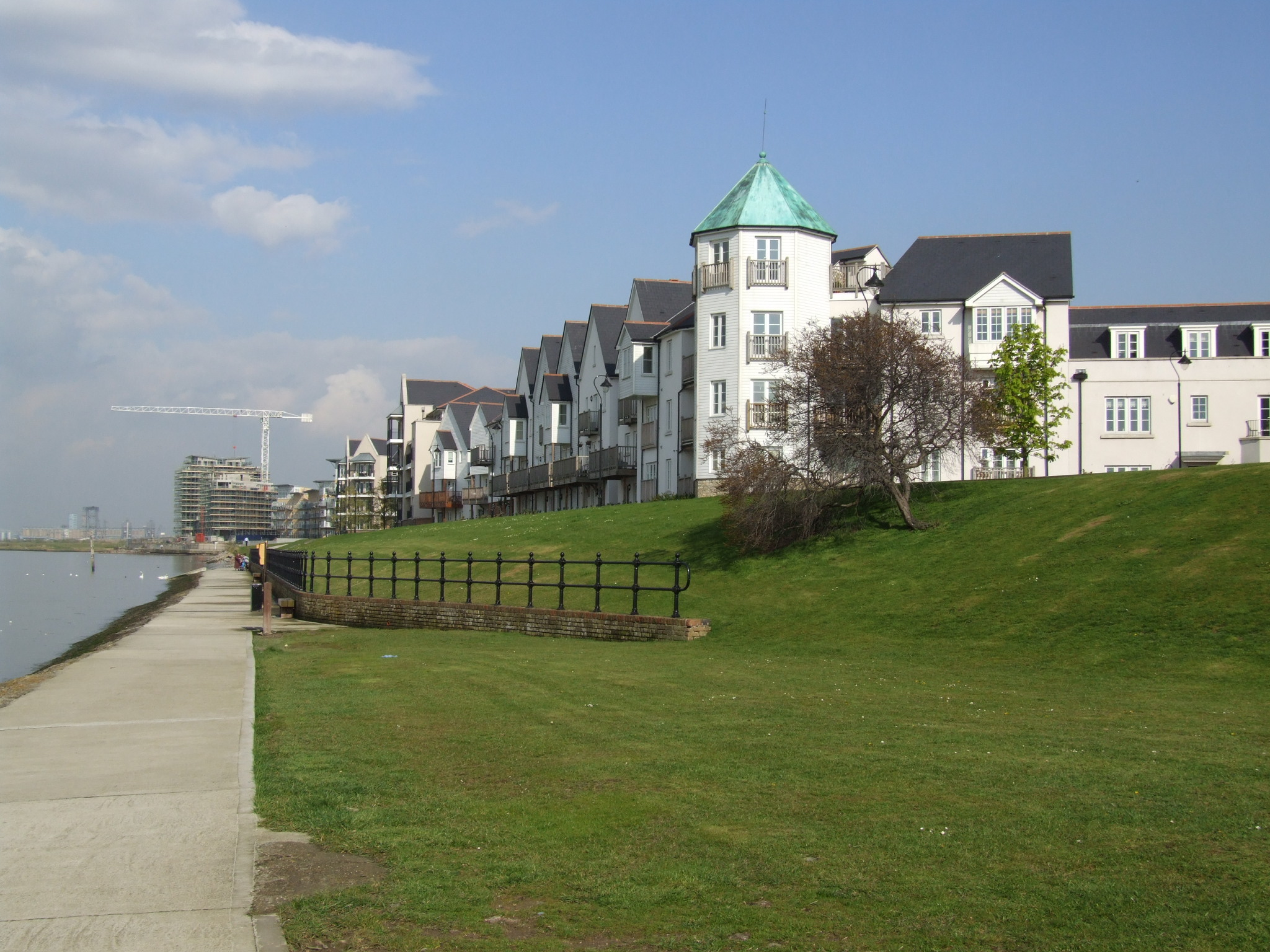 Greenhithe, Kent in April 2008. Ingress Park housing development on the shore of the Thames Estuary looking down St Clement's or Fiddlers'Reach. - OpenStreetMap(Info)